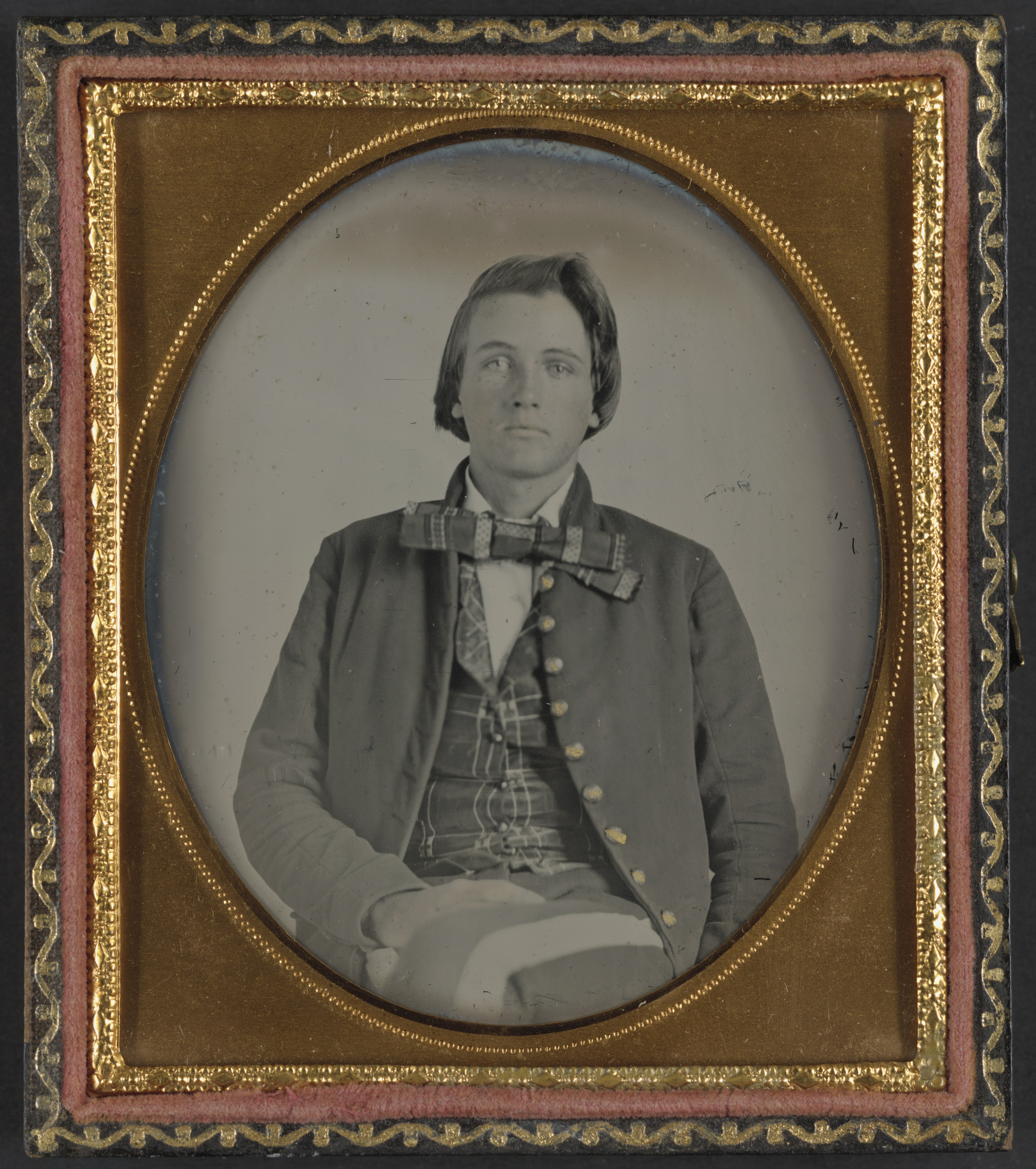 Title: Unidentified soldier in Confederate nine-button frock coat Abstract/medium: 1 photograph : sixth-plate ambrotype, hand-colored ; 9.3 x 8.1 cm (case)